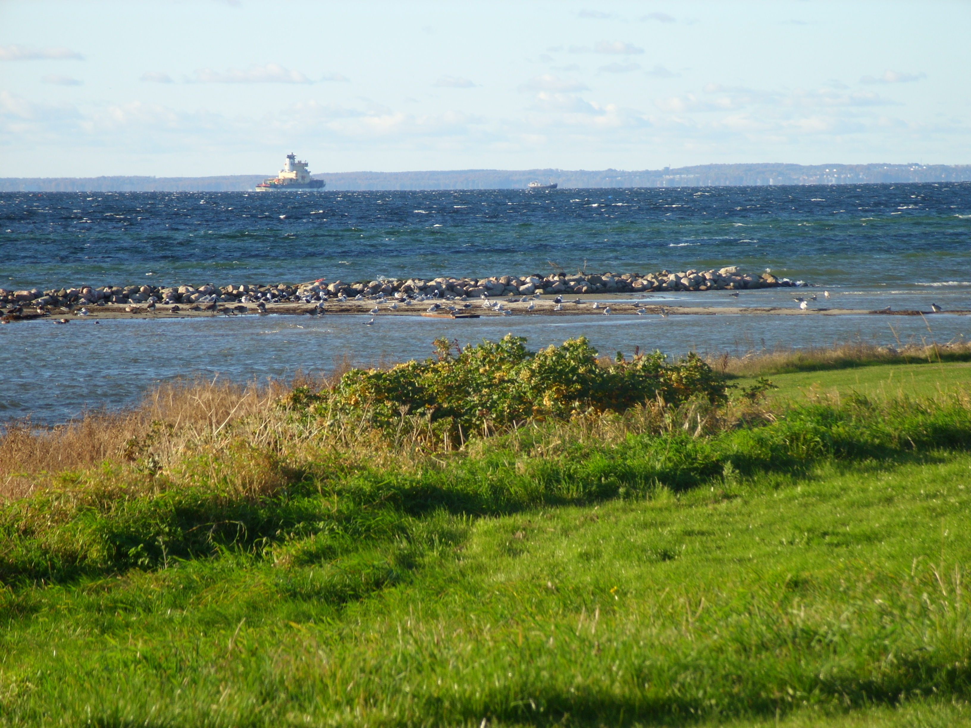 A shot taken from Swedish (Scanian) side of Øresund, taken from a location just a bit north of Landskrona, Denmark is clearly visible at the other side.